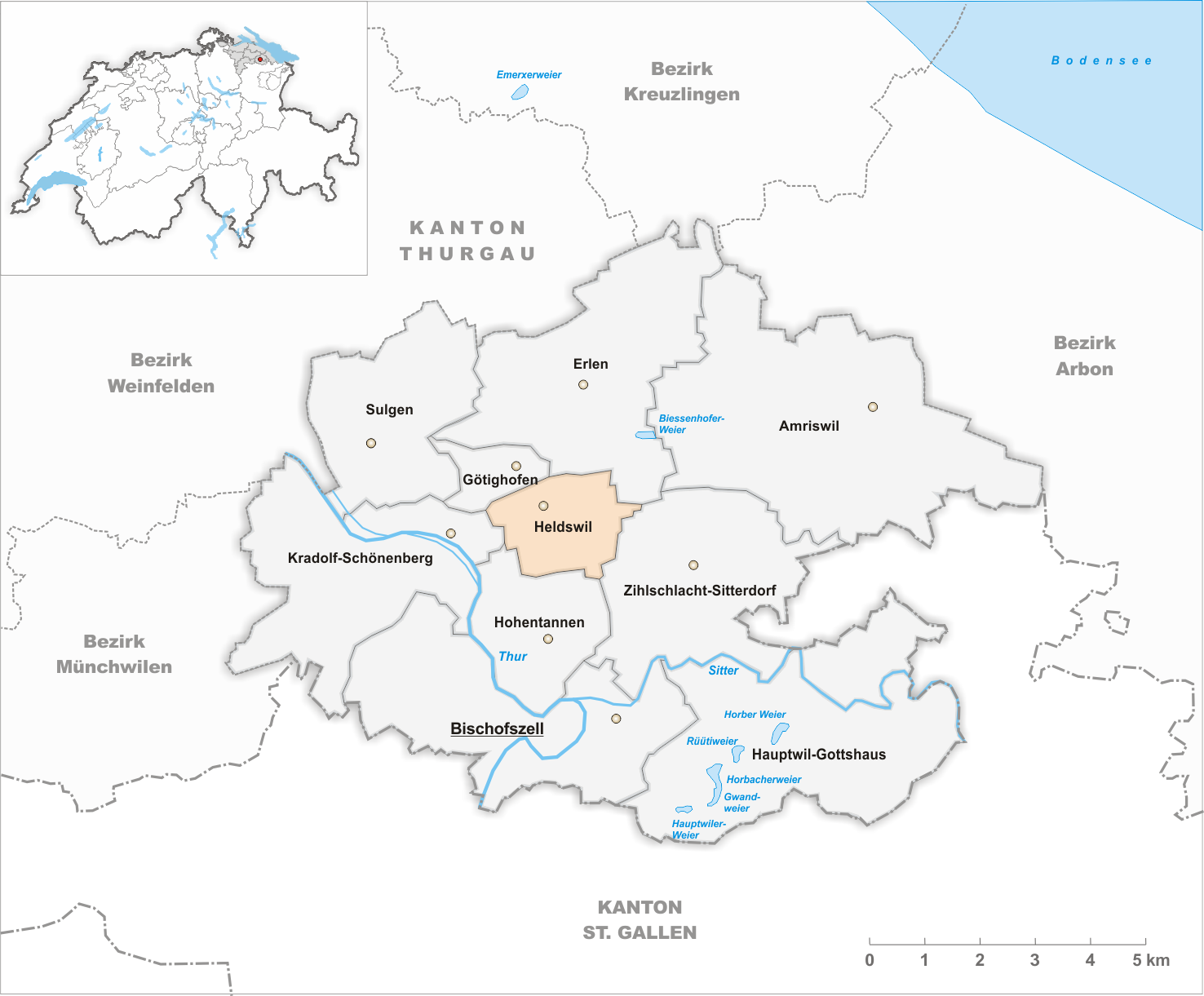 Municipality Heldswil